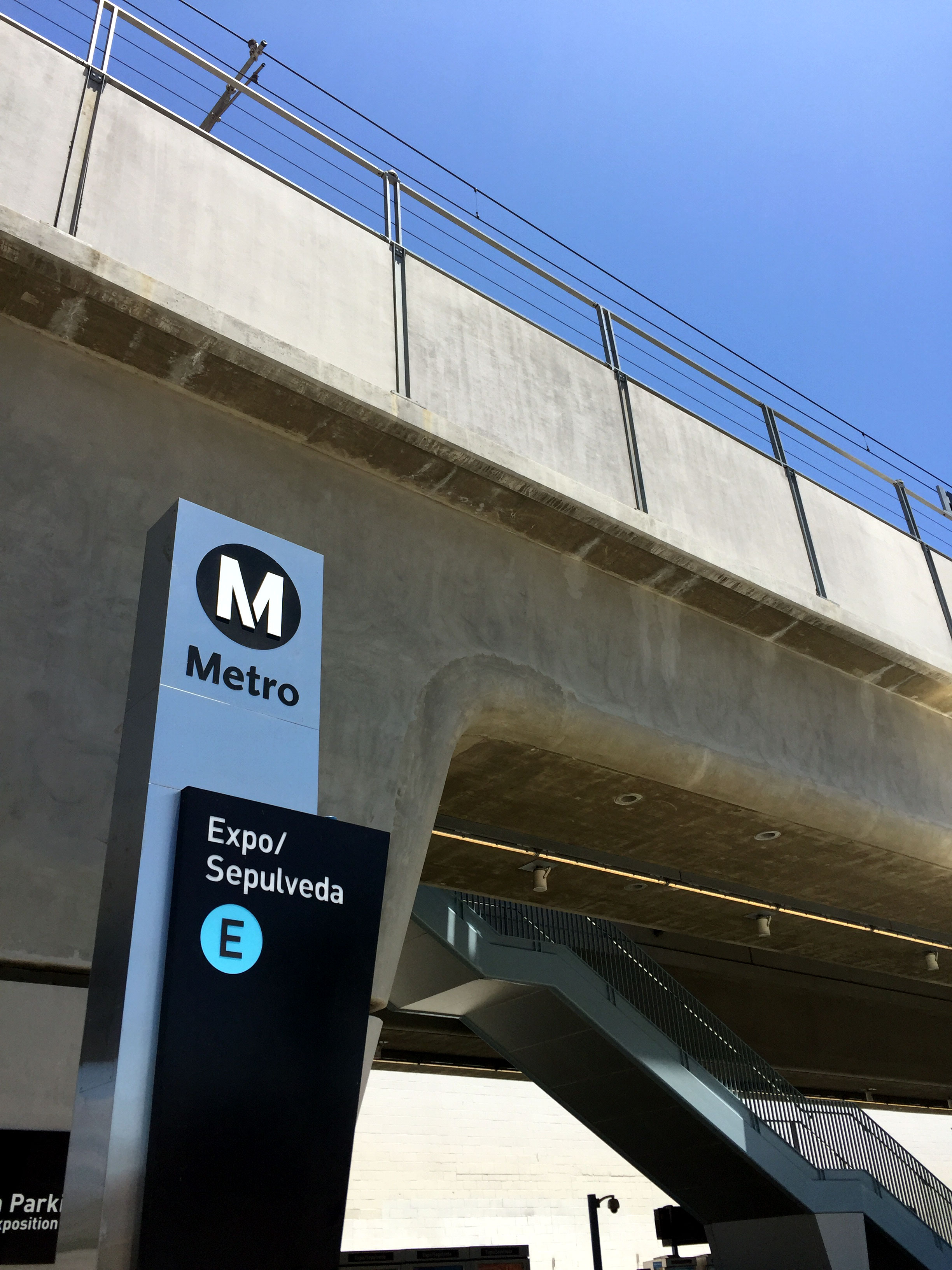 Expo / Sepulveda (Los Angeles Metro station)